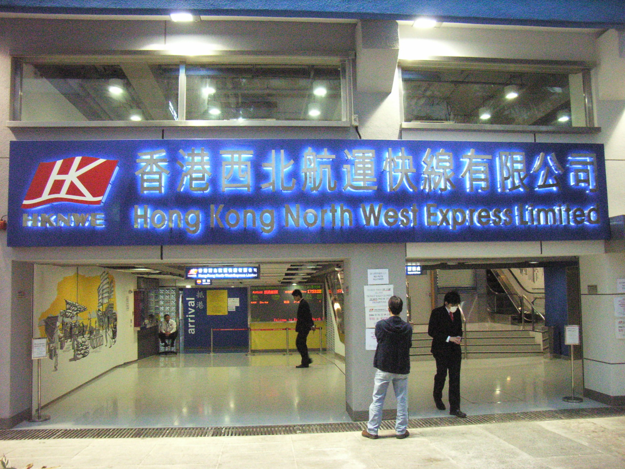 香港西北航運快線有限公司 (Hong Kong North West Express Limited)，簡稱西北航運，(英文簡稱HKNWE)，是zh:香港的一間zh:渡輪公司。 西北航運是來往香港zh:屯門碼頭至珠海的跨境渡輪公司。 票價百多港元一位單程。 (Photo created by User:TUmuMATo)。